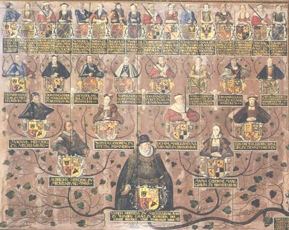 The Mecklenburgske anetavle (Mecklenburg ancestral table) which hangs in the Abbey Church or Nykøbing Falster displays 63 of the ancestors of Sophie of Mecklenburg-Güstrow, queen dowager of Denmark, with illustrations.